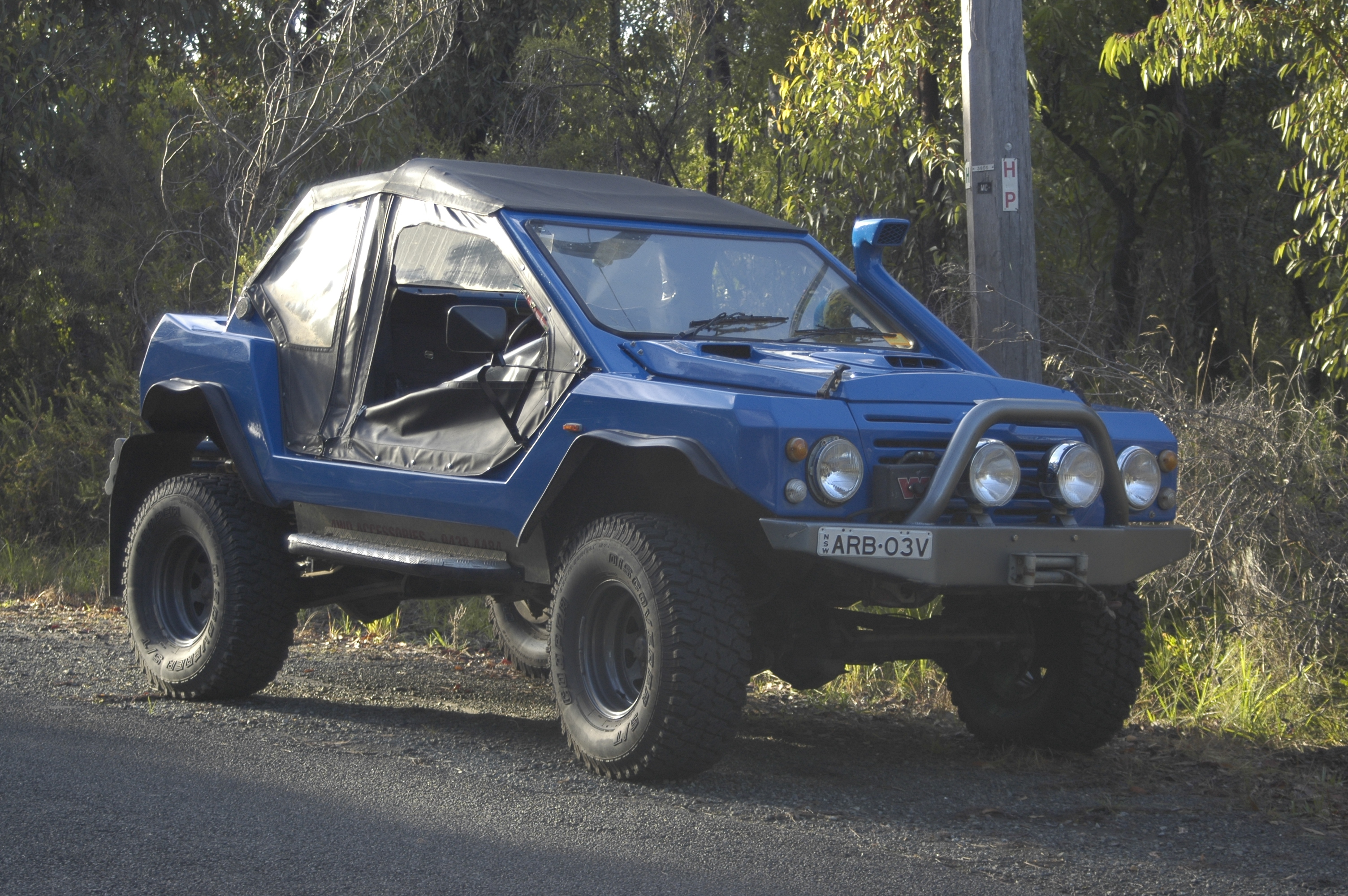 Example of the build and design of the "Bushranger" ranger rover.